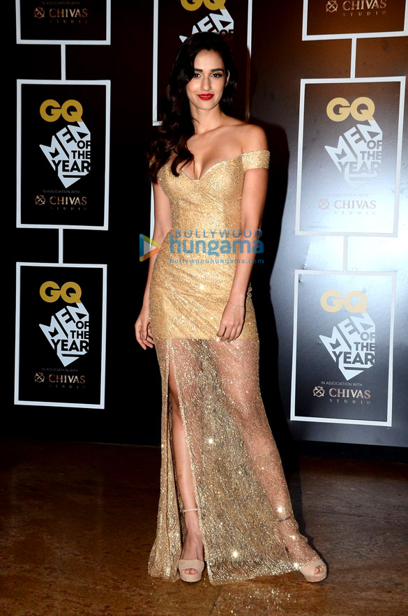 Disha Patani graces GQ Men of The Year Awards 2016